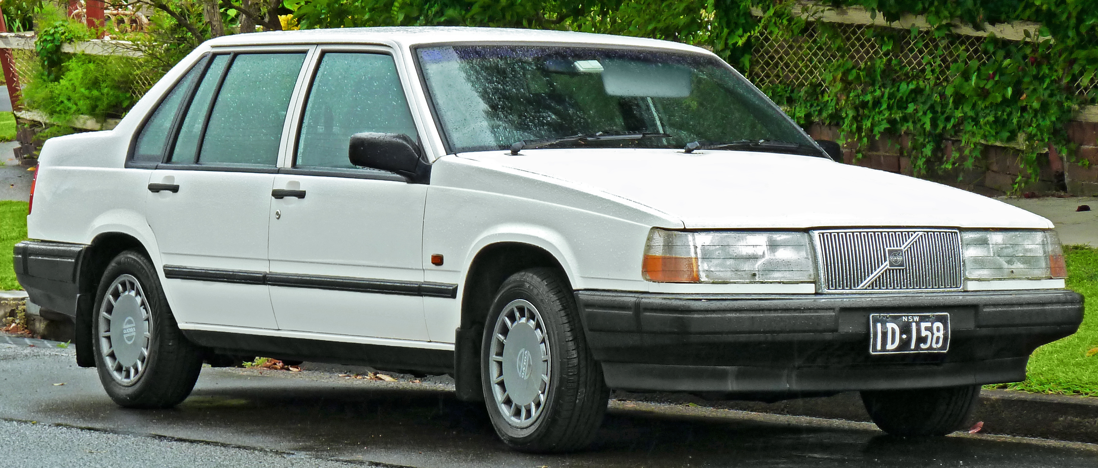 1992 Volvo 940 GL sedan. Photographed in Roseville, New South Wales, Australia.